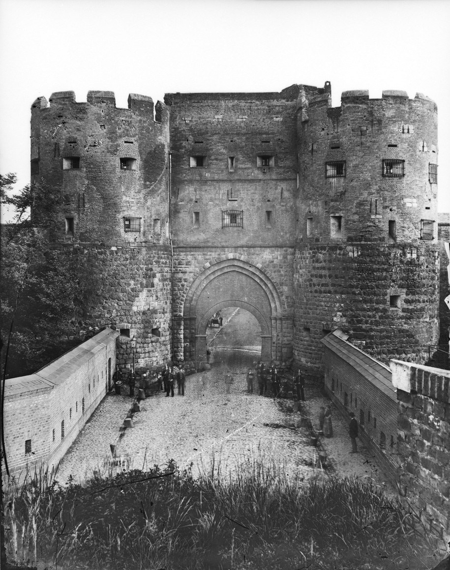 Köln - Eigelsteintor Feldseite, um 1880